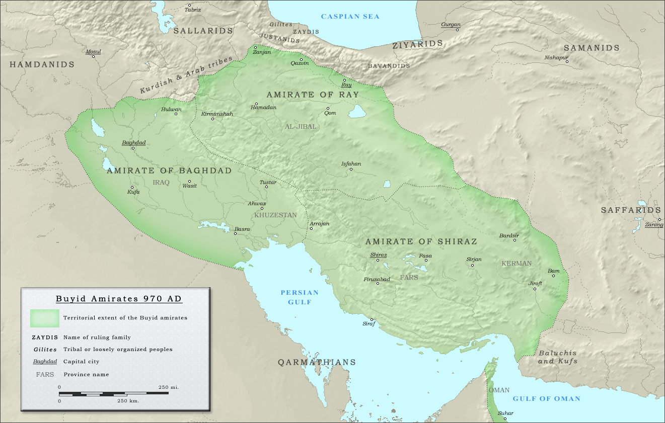 Map of the three emirates under control of the Buyid dynasty ca. 970 CE